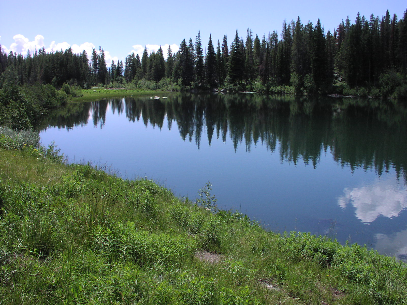 Trapper Lake in Grand Teton National Park, Wyoming, USA